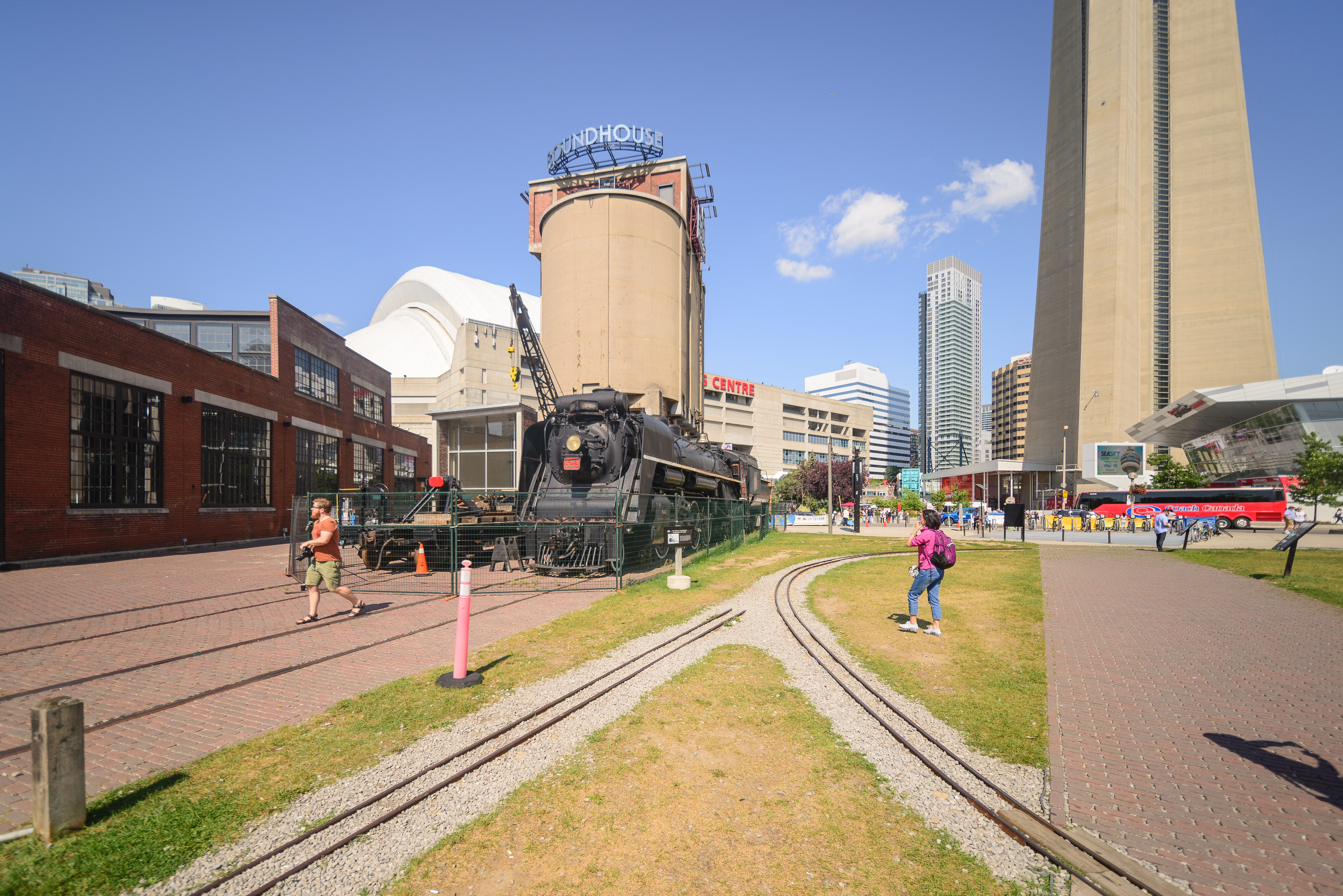 Roundhouse park with John Street Roundhouse, a preserved locomotive roundhouse which is home to the Toronto Railway Museum.